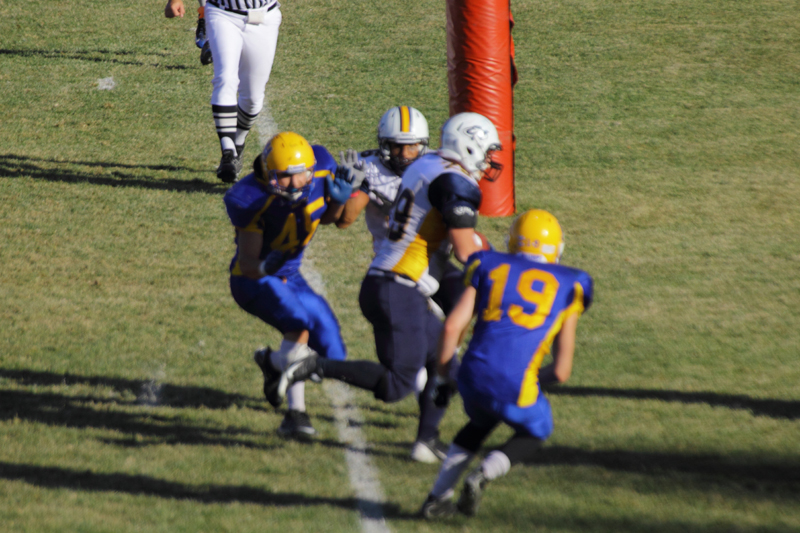 Sunday October 14, 2012 1:00 p.m. Junior Football game in the Prairie Football Conference (PFC). Canadian Junior Football League teams included Edmonton and Saskatoon. Saskatoon Hilltops were the home team at Gordie Howe Bowl home to the Saskatoon Hilltops . The game concluded at Hilltops 42-11 Wildcats. The Hilltops will continue in the playoffs advancing to the PFC Final next Sunday, October 21, 2012. The Regina Thunder defeated the Calgary Colts 24-21. Hilltops meet the Thunder at Gordie Howe Bowl. The champion of the PFC final will receive the hosting rights for the Jostens Cup. The Jostens Cup is played between the OFC Champion and PFC Champion Teams. The Jostens Cup winner goes on to play the BCFC Champion for the Canadian Bowl Championship. With 2:55 remaining in the fourth quarter, the WIldcats bring in a touchdown bringing the score with a successful convert to 42 Hilltops and 11 Wildcats.